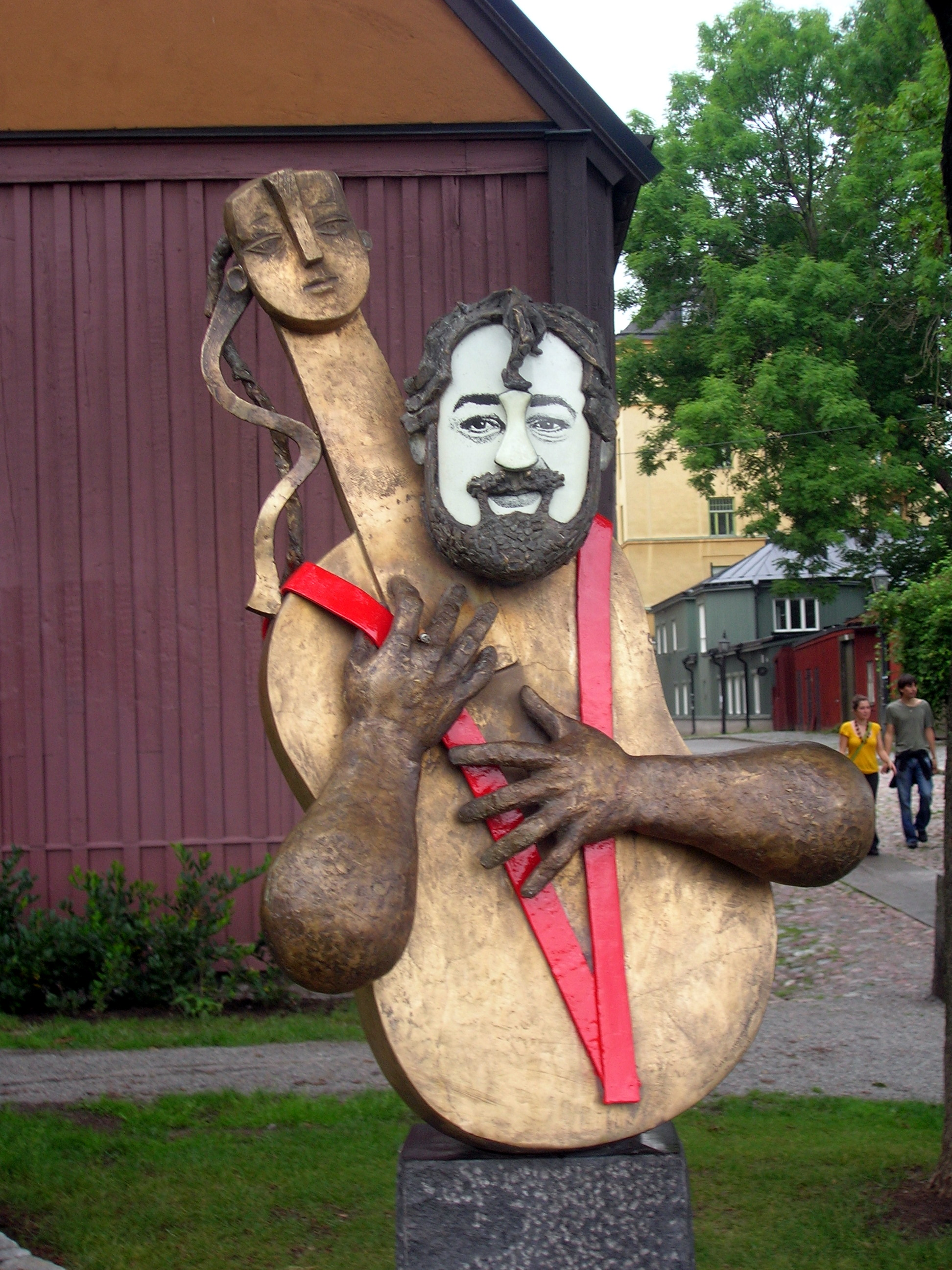 A statue of Cornelis Vreeswijk, made by Bitte Jonason Åkerlund